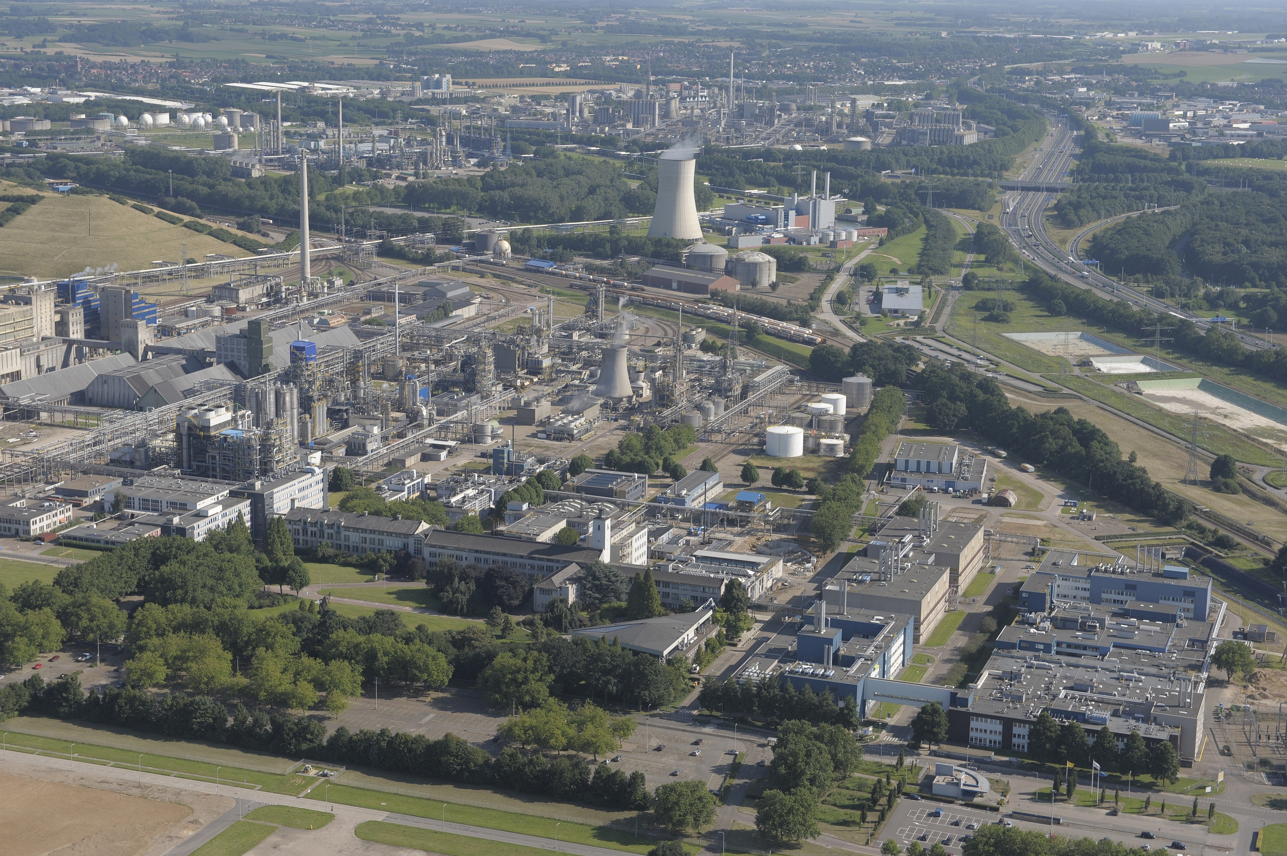 Arial view Chemelot Site